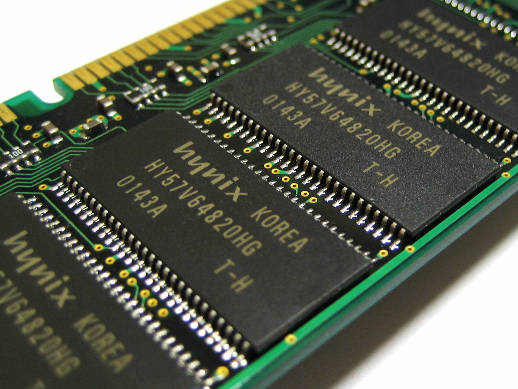 Hynix HY57V64820HG is 4 banks × 2M × 8 bit Synchronous DRAM (SDRAM) chip.